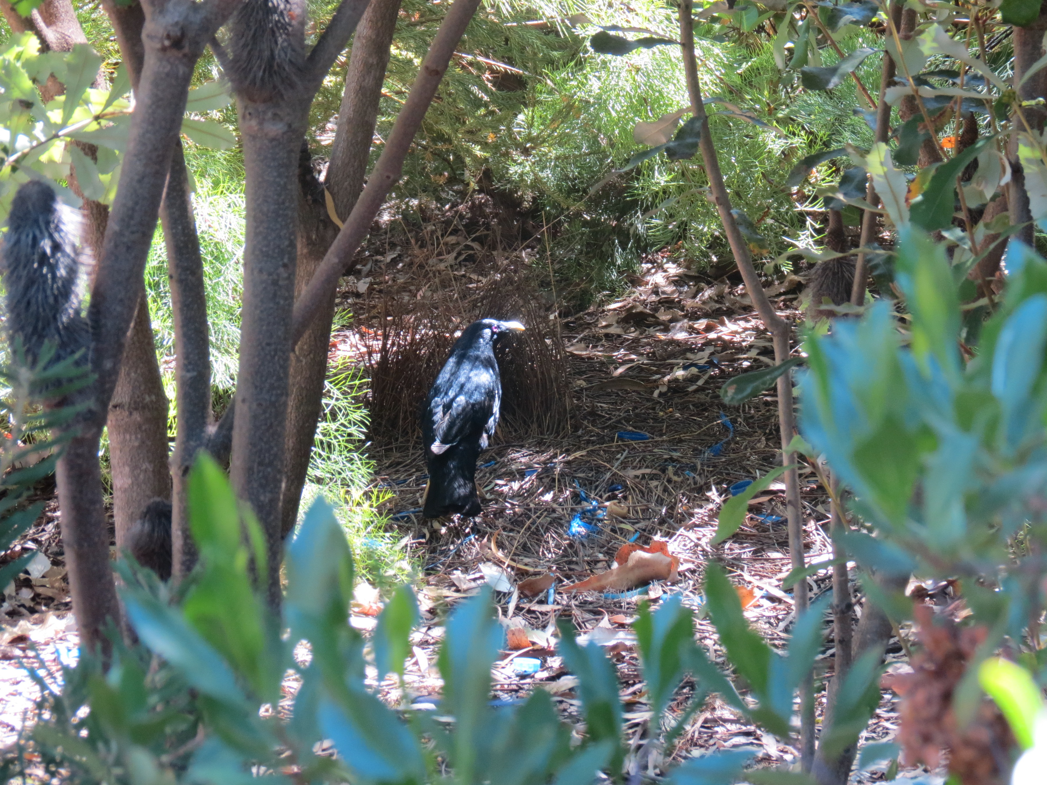 Ptilonorhynchus violaceus (Vieillot, 1816), Satin Bowerbird, male in bower, Australian National Botanic Gardens, Canberra, ACT, 6 January 2014